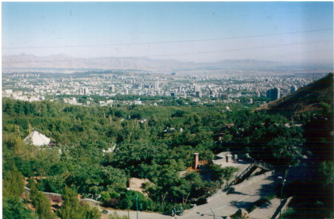 Entrance path of Jamshidieh Park with a sharp slope. (Must be around of 1980)